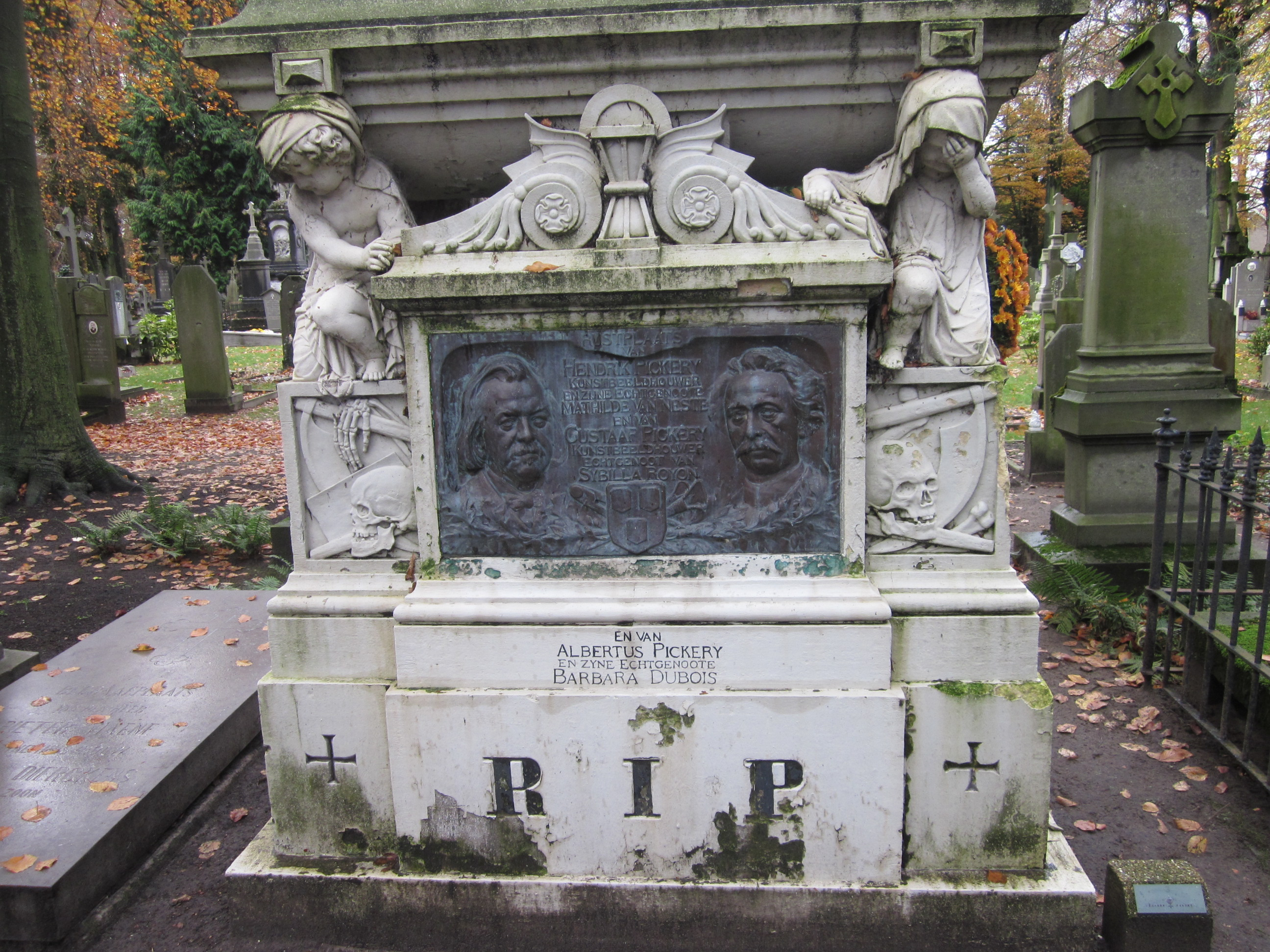 Cemetery of Bruges: Grave of the sculptors Hendrik and Gustaaf Pickery.